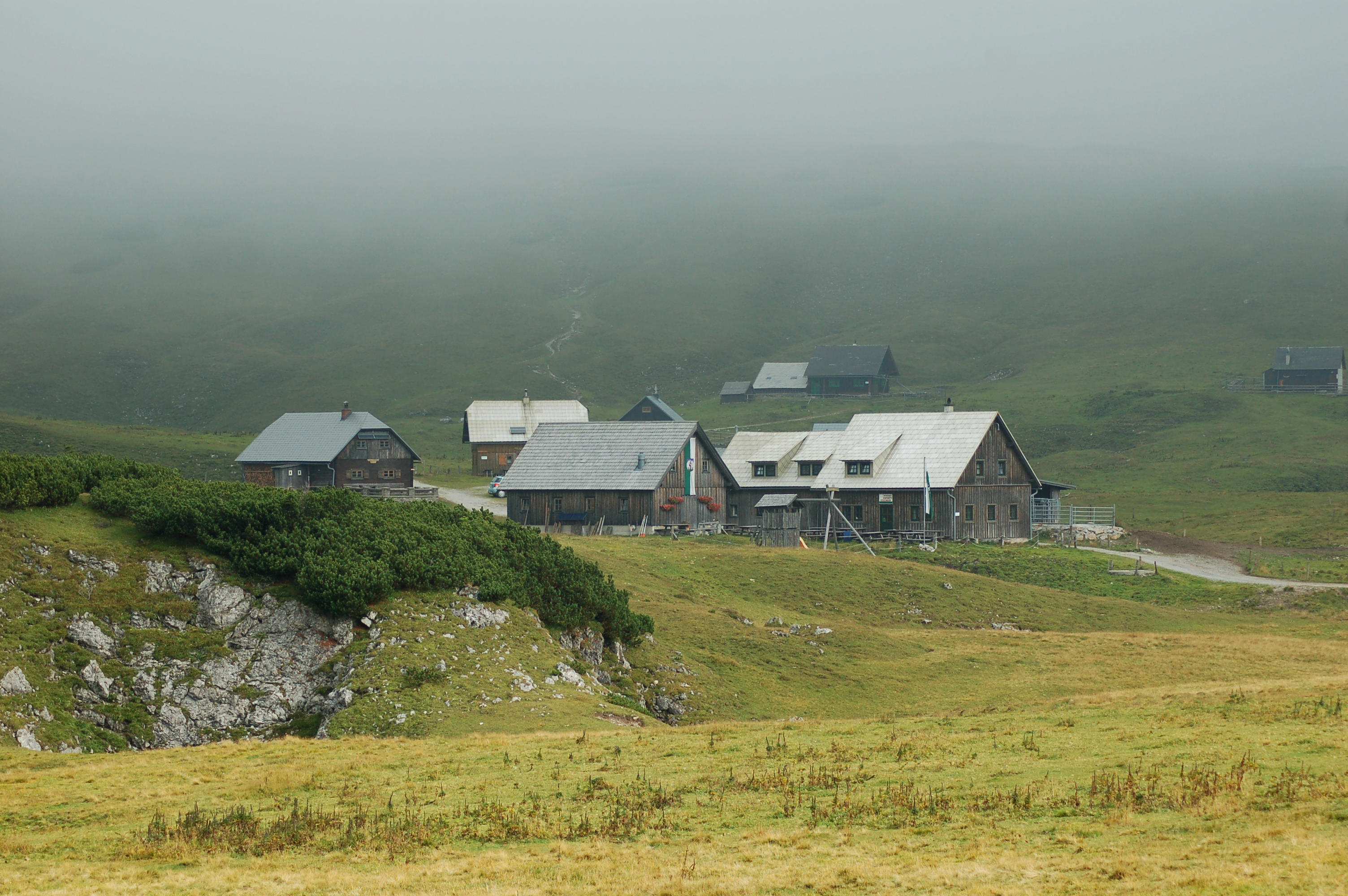 The mountain huts at the Schneealpe, a pasture in Styria, Austria. One of them is Michlbauer Hütte. The fog above hides the way to the Windberg.